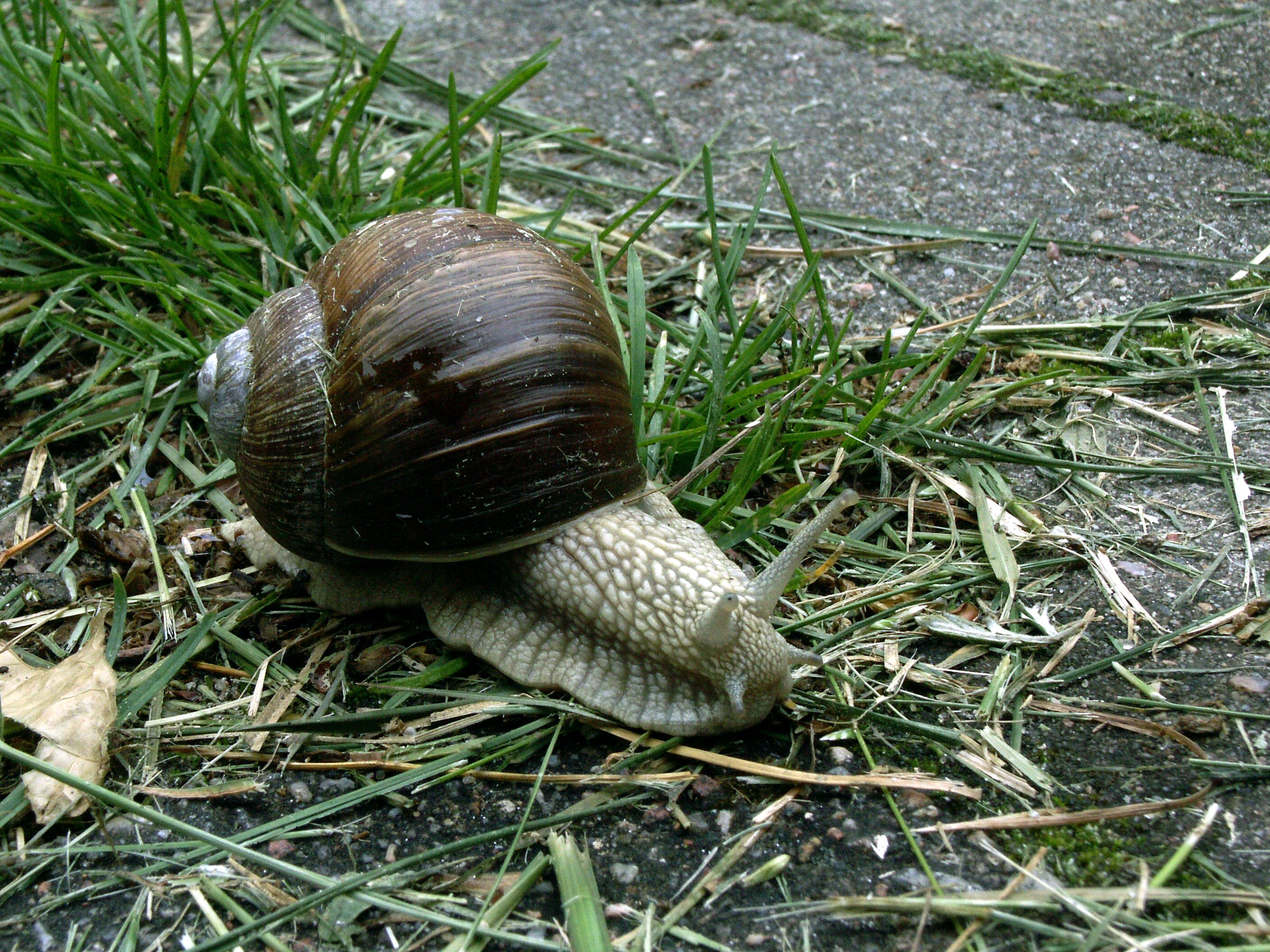 Helix pomatia from Juodkrantė, Lithuania